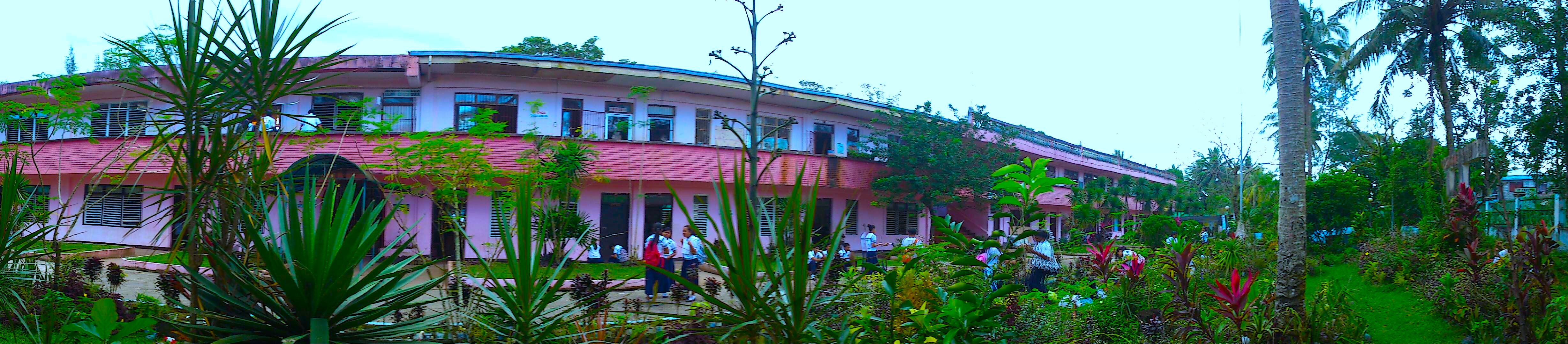 Panorama shot of Jose Panganiban National High School's Administration Building